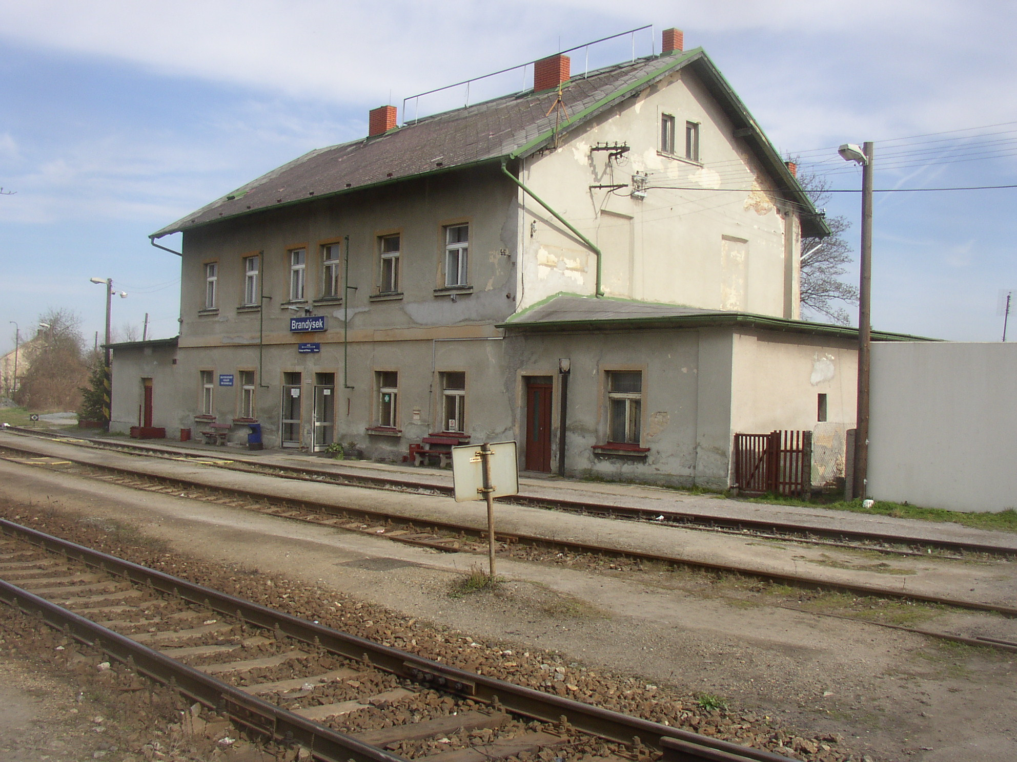 Railway station Brandýsek is situated in half of the Kralupy nad Vltavou - Kladno line. Old road No 7 from Prague to Saxony via Slaný, Louny and Chomutov crosses the track just besides the station building.